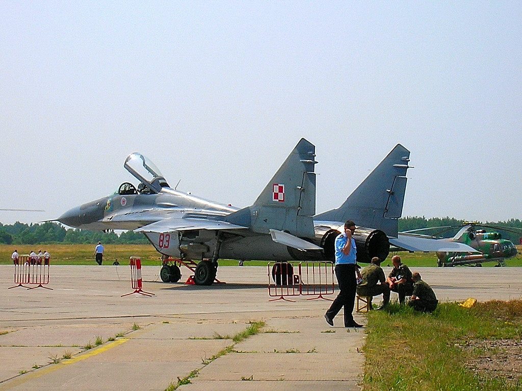 Polish Air Force Mig-29A in the aviashow "Kilkime" (Kaunas, Lithuania).